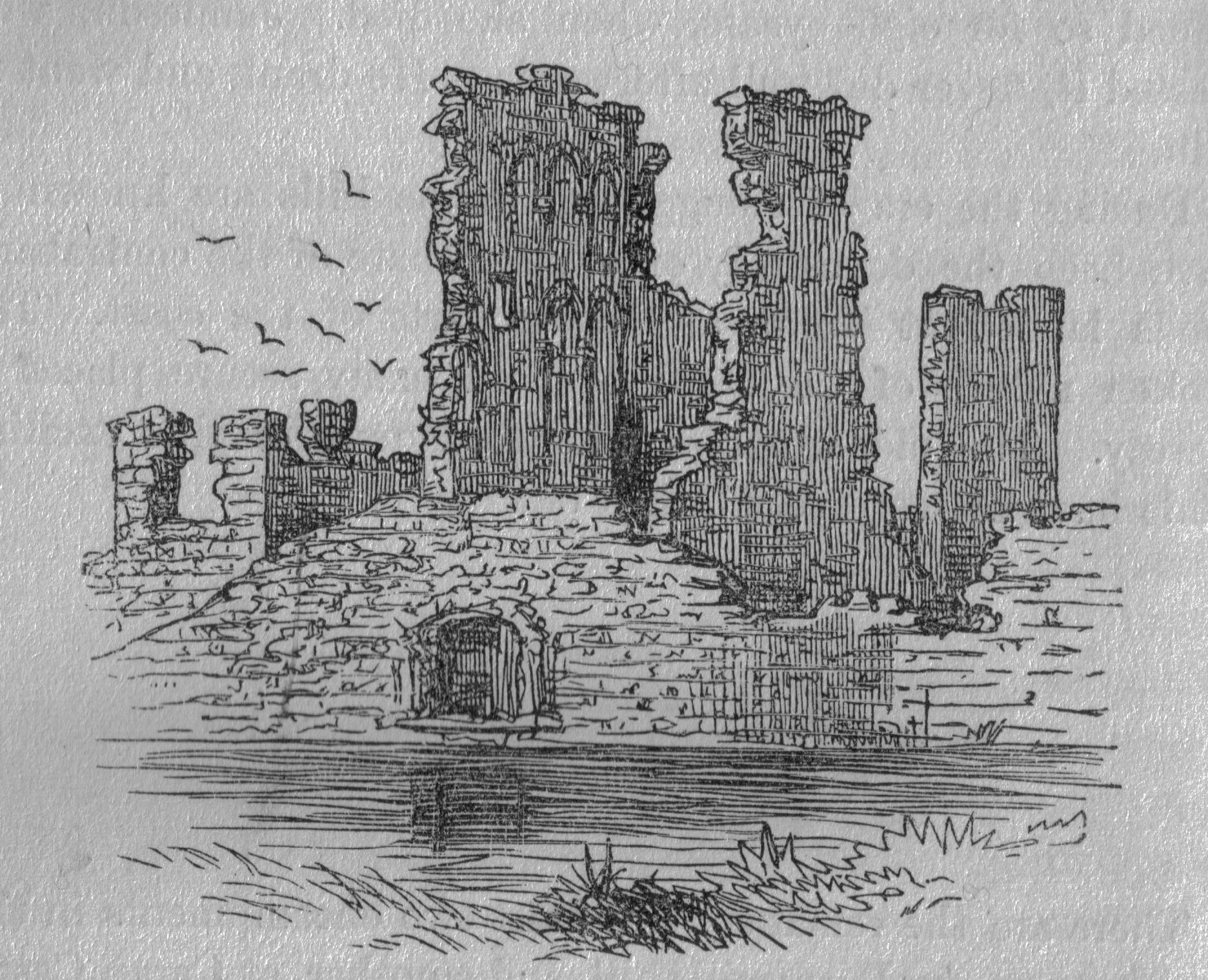 An engraving of the ruins of Craigie Castle, South Ayrshire, Scotland.